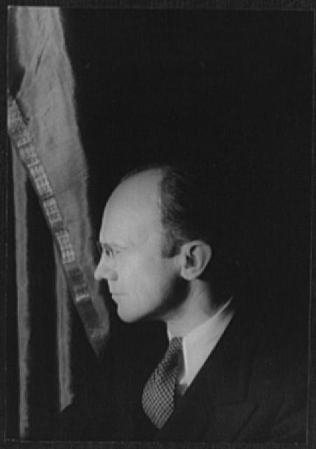 Portrait of composer Deems Taylor